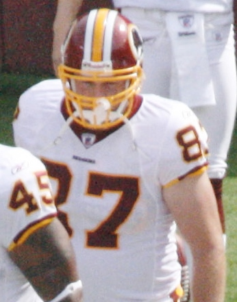 Clinton Portis runs with the ball in the Washington Redskins' game vs the New Orleans Saints.